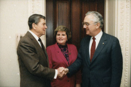 President Ronald Reagan and John Poindexter (4-6) Talking with John Poindexter President Ronald Reagan, Ronald Lehman, John Poindexter, Don Fortier, and George Bush (7-17) National Security Council NSC Meeting President Ronald Reagan, Andrew O'Rourke, and Alice O'Rourke (18-28) Photo Op. With Andrew O'Rourke and Alice O'Rourke